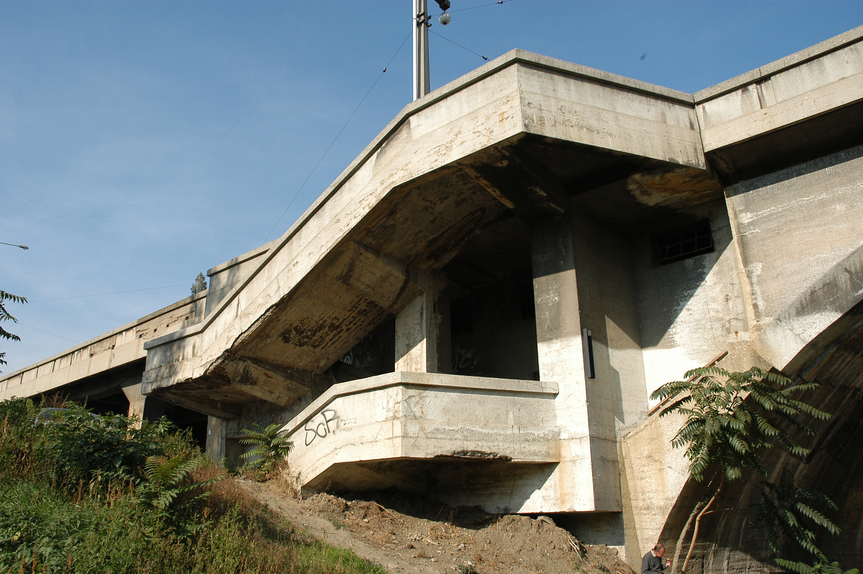 Libeň Bridge (Libeňský most) over the Vltava River in Prague, Czech Republic. Close-up of a staircase.